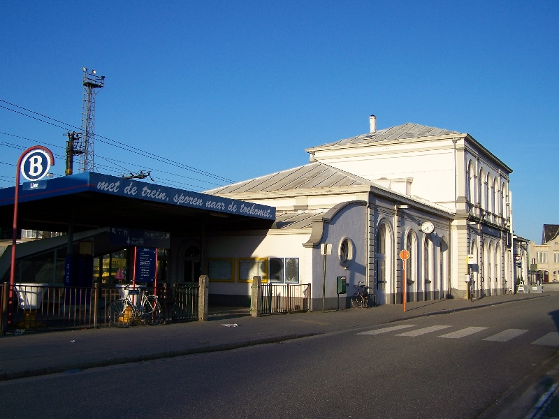 Lier railway station in Belgium